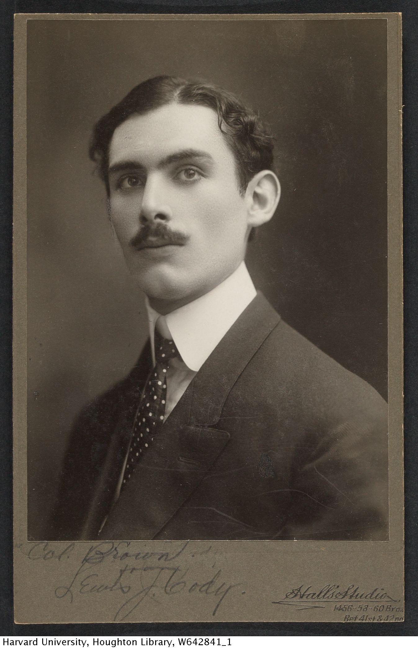 Cabinet card image of American stage and film actor Lew Cody (1884-1934), noted as "Lewis J. Cody" here. From a collection donated in 1918. TCS 1.5328, Harvard Theatre Collection, Harvard University